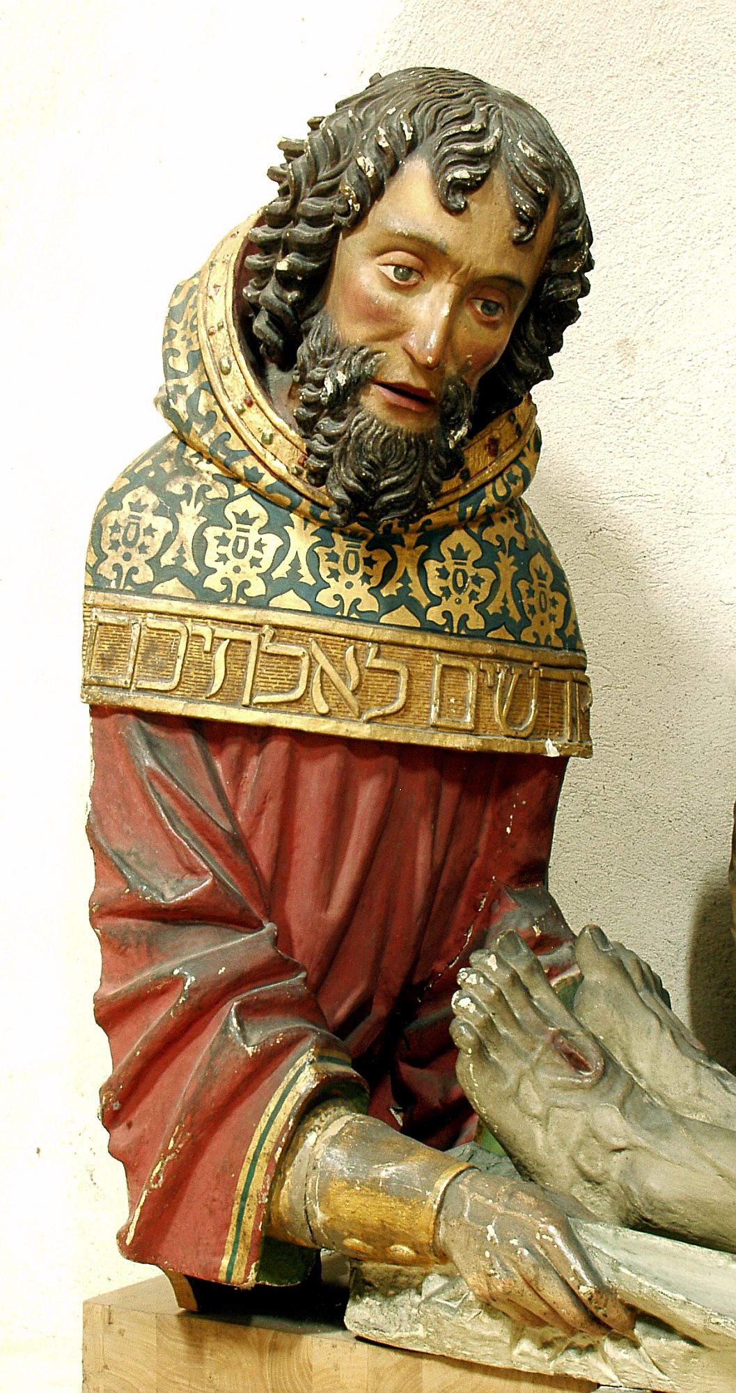 Nicodemus, in the church "Gross St. Martin", Cologne, Germany